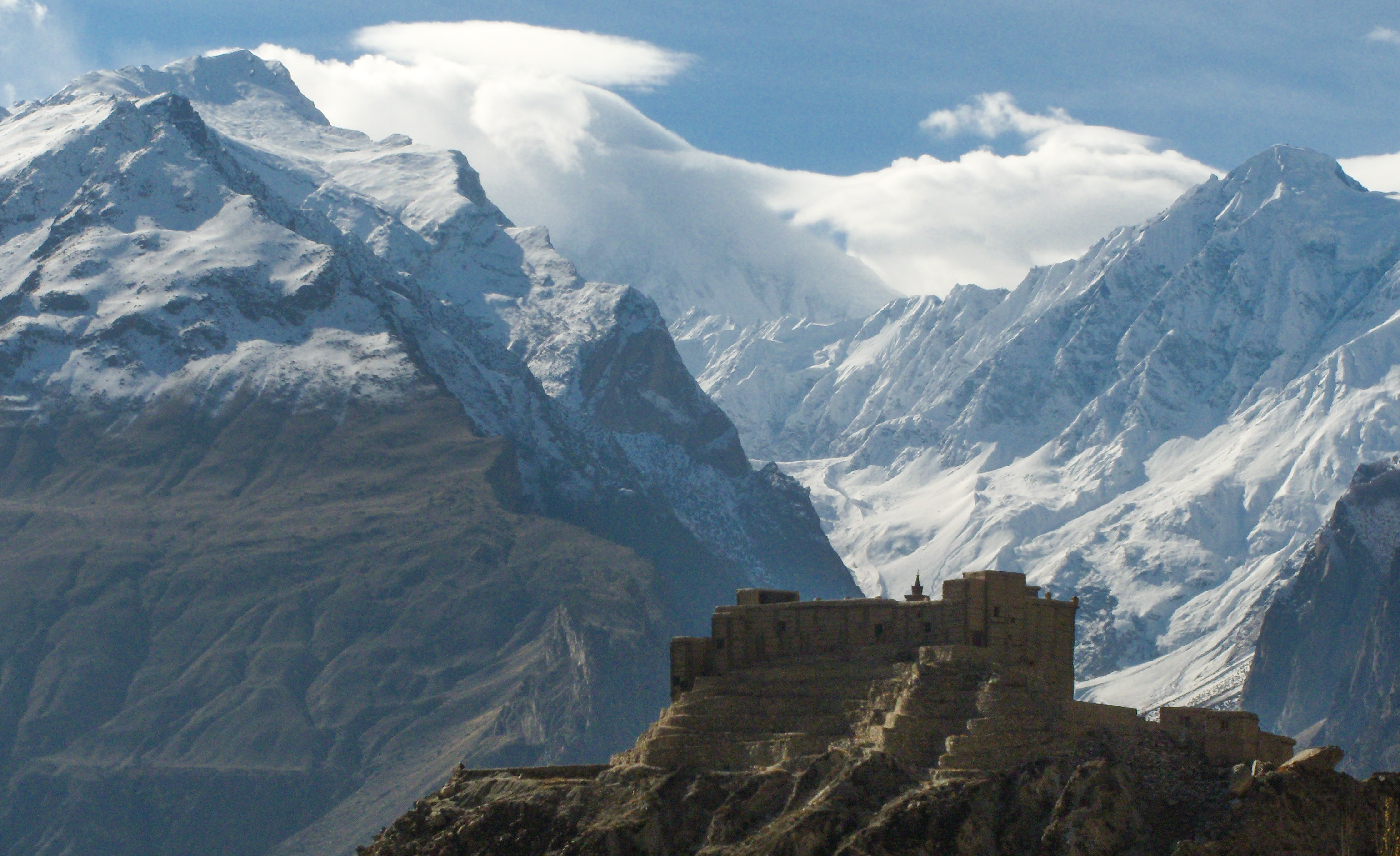 Baltit Fort This is a photo of a monument in Pakistan identified as the GB-15